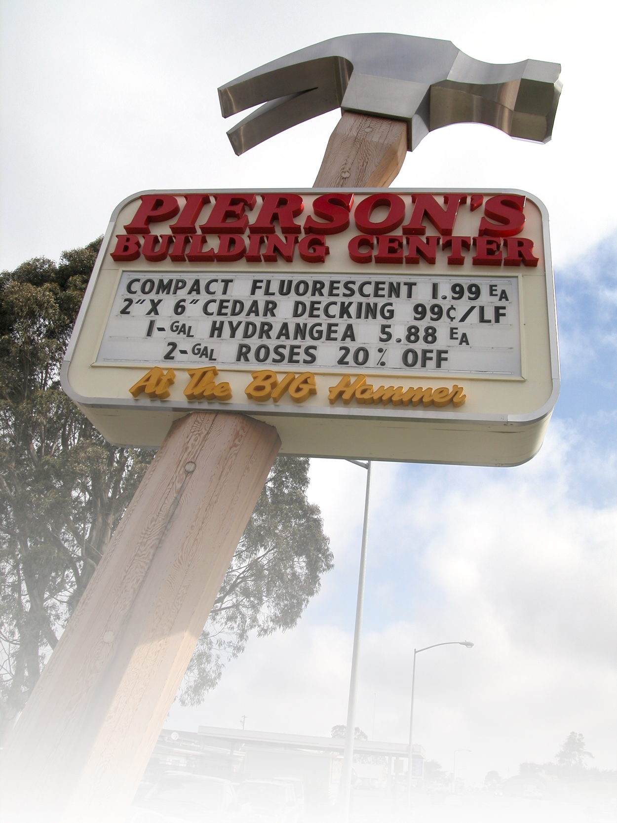 Perspective view of the World's Largest Hammer looking upward. Located at 4100 Broadway, Eureka, California 95503.